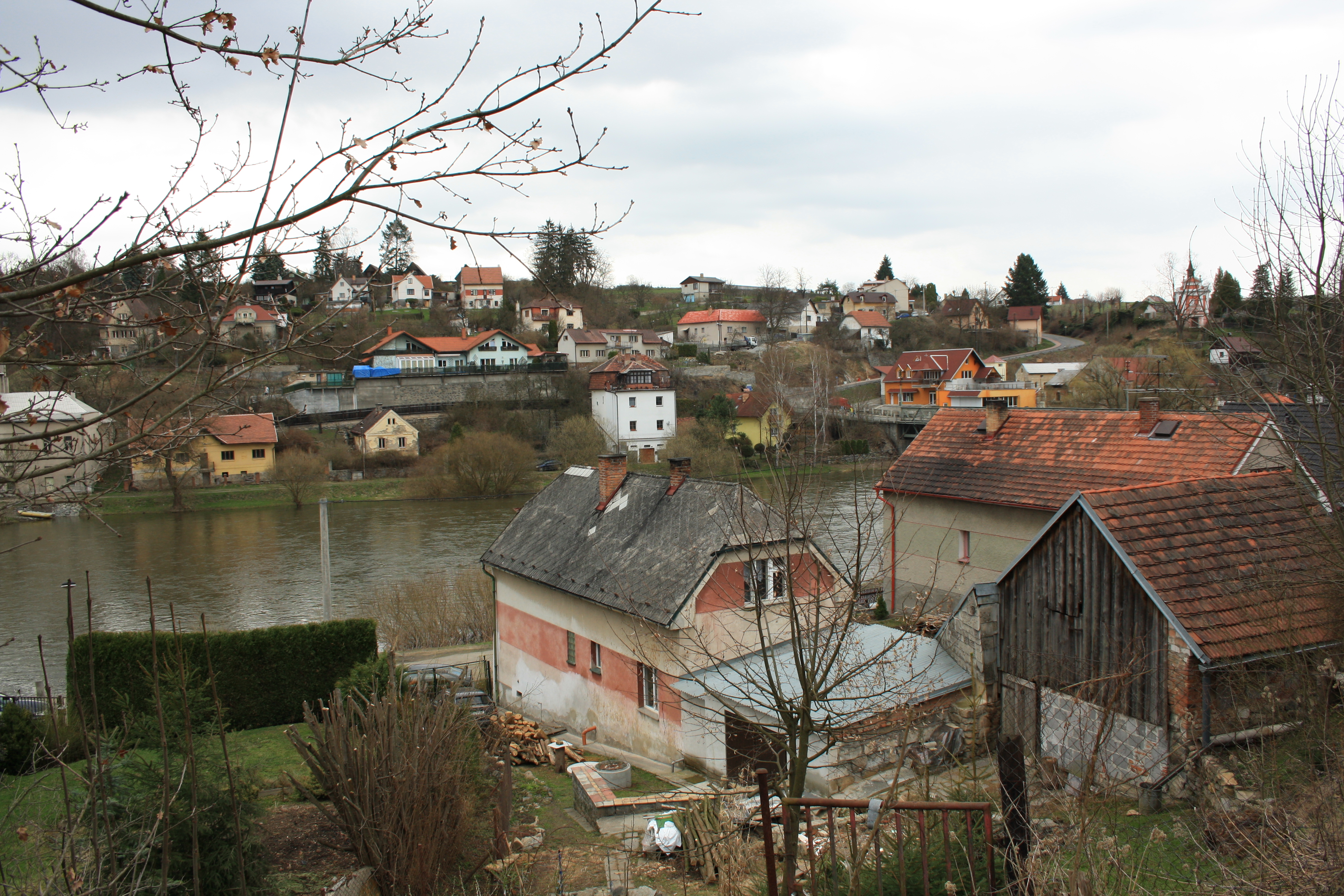 Town of Kamenný Přívoz seen from south, Central Bohemian Regoin, CZ